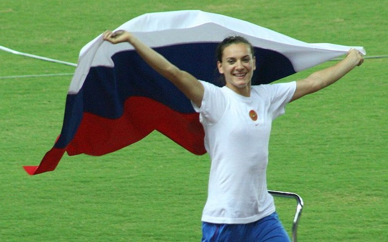 World Athletics Championships 2007 in Osaka - Women's Pole vault winner Yelena Isinbaeva celebrating